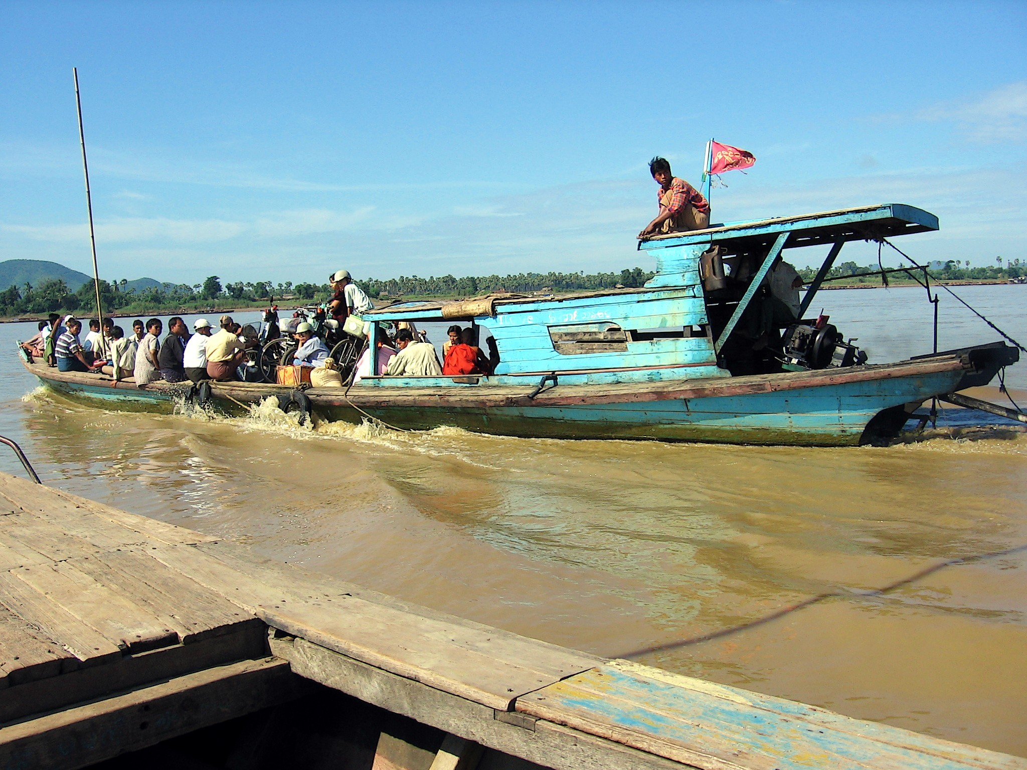 Chindwin river in Monywa, Myanmar.